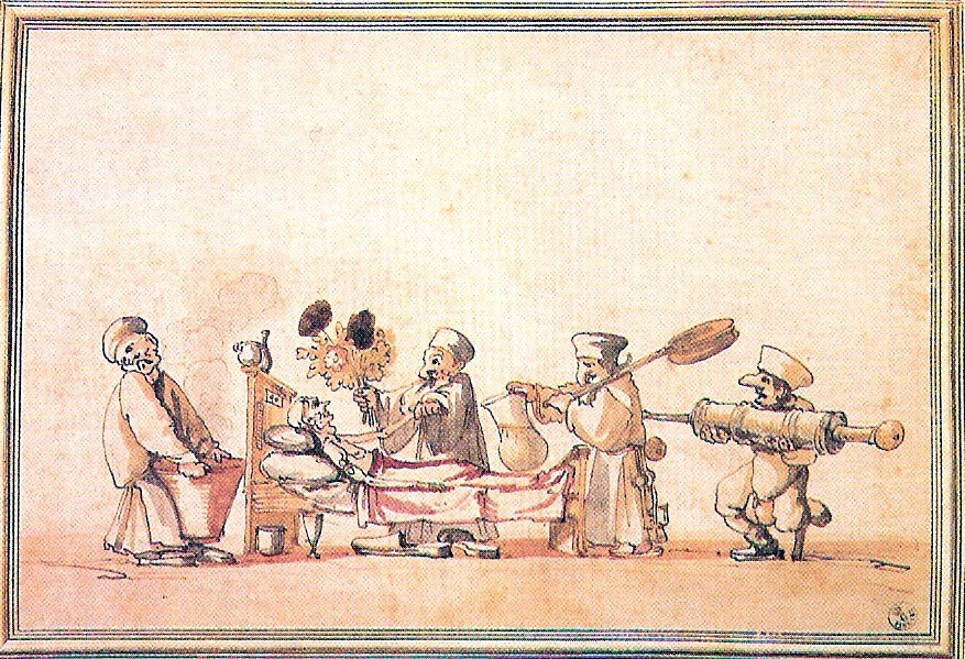 Humorous Allegory of Medicine by Baccio (Bartolommeo) del Bianco (1604-1657)